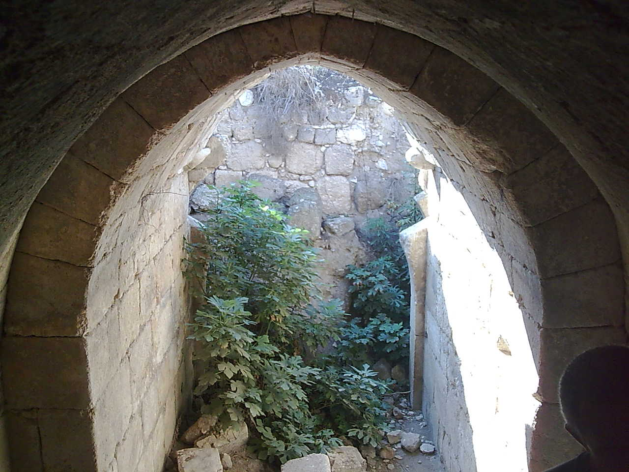 Arched Crusader entrance At Tel Hanaton